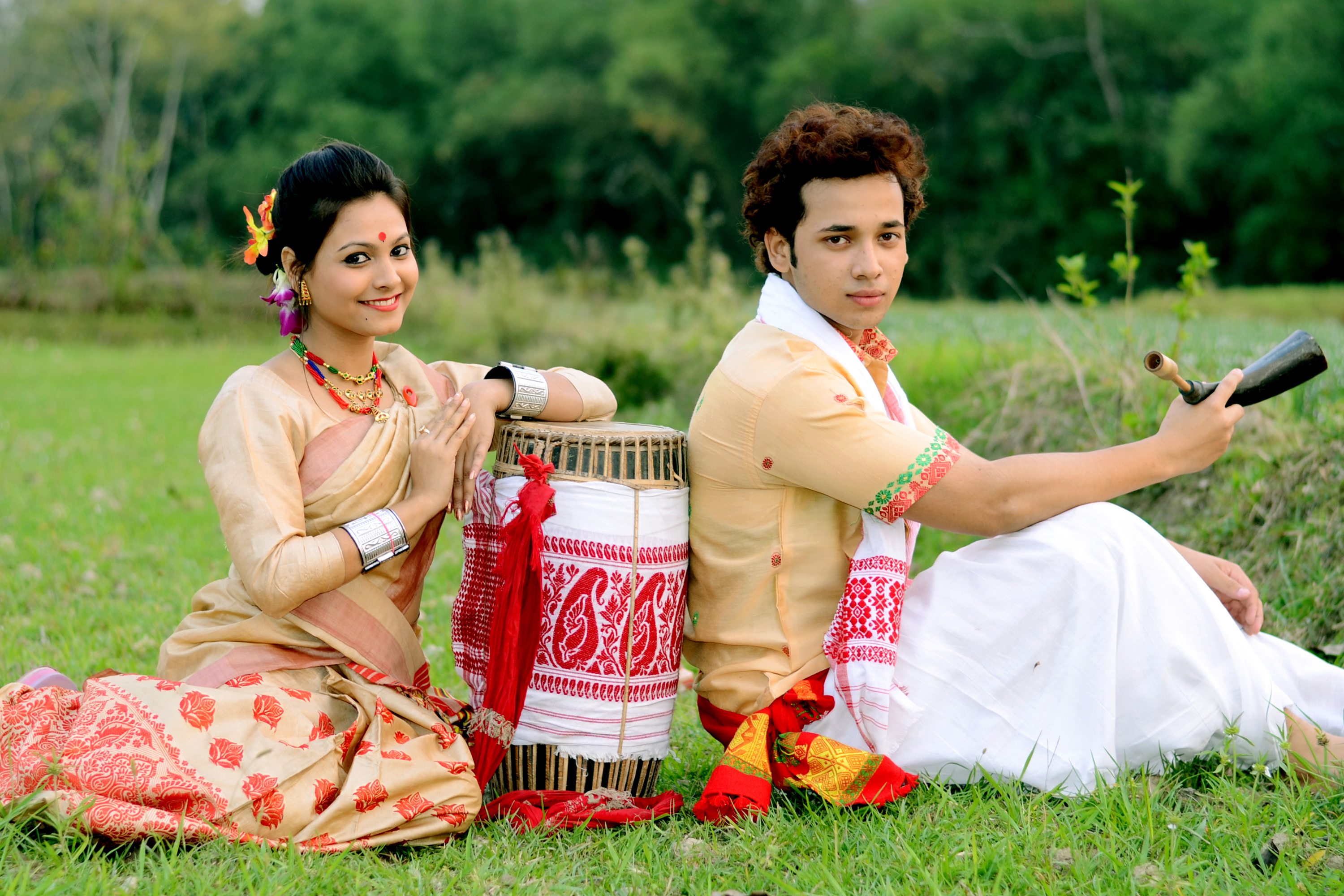 Bihu festival of Assam